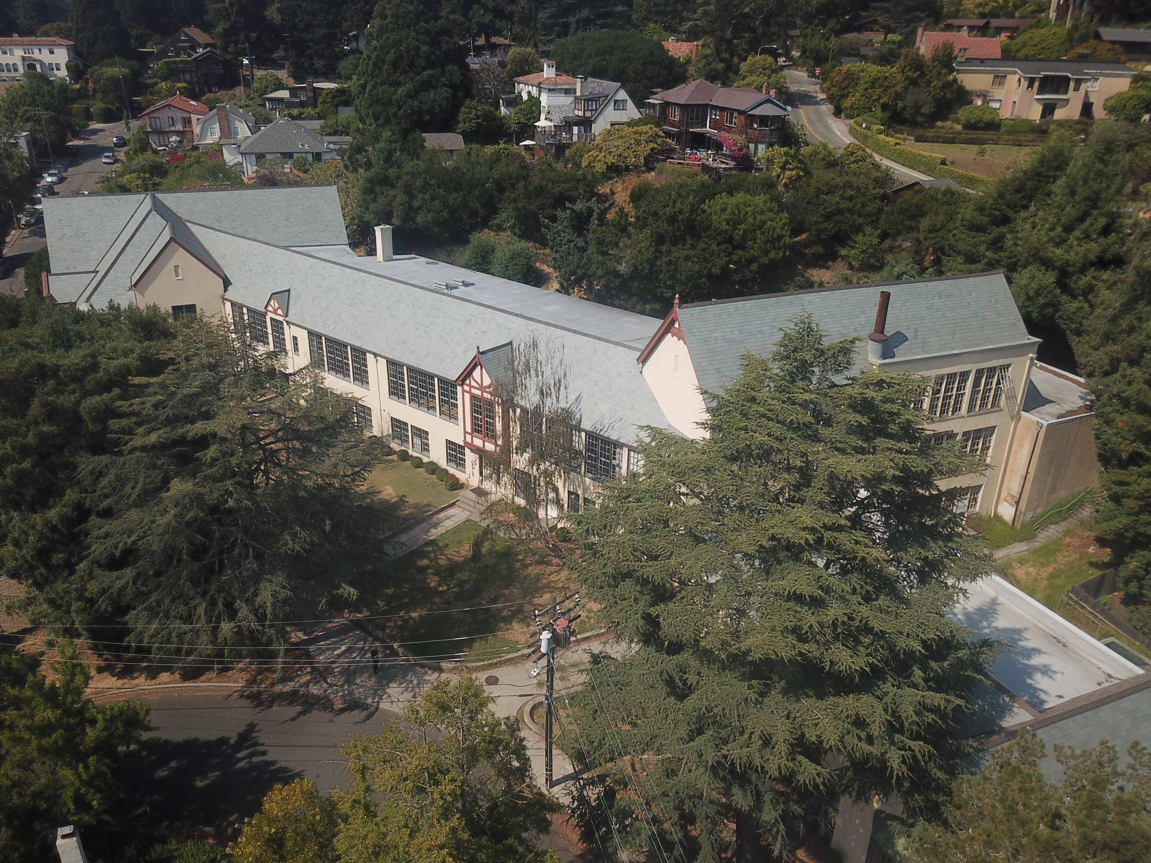 Hillside School Aerial from south